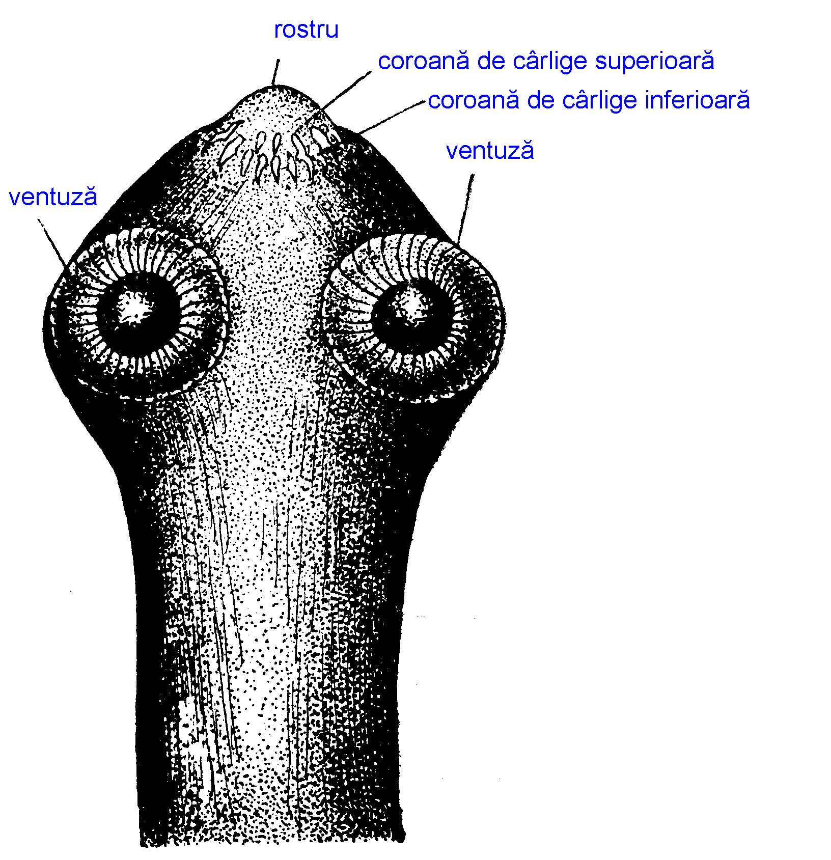 Taenia solium. Rostrum, lateral view